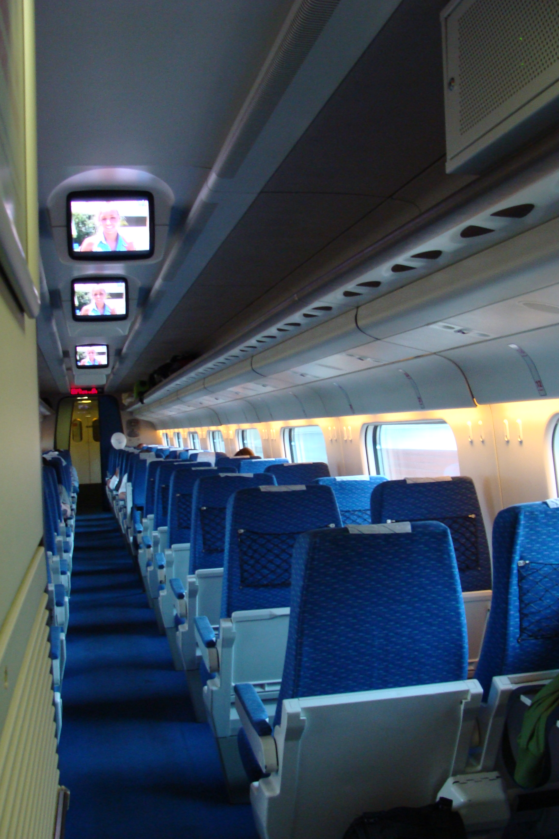 Interior of an Alfa Pendular Train